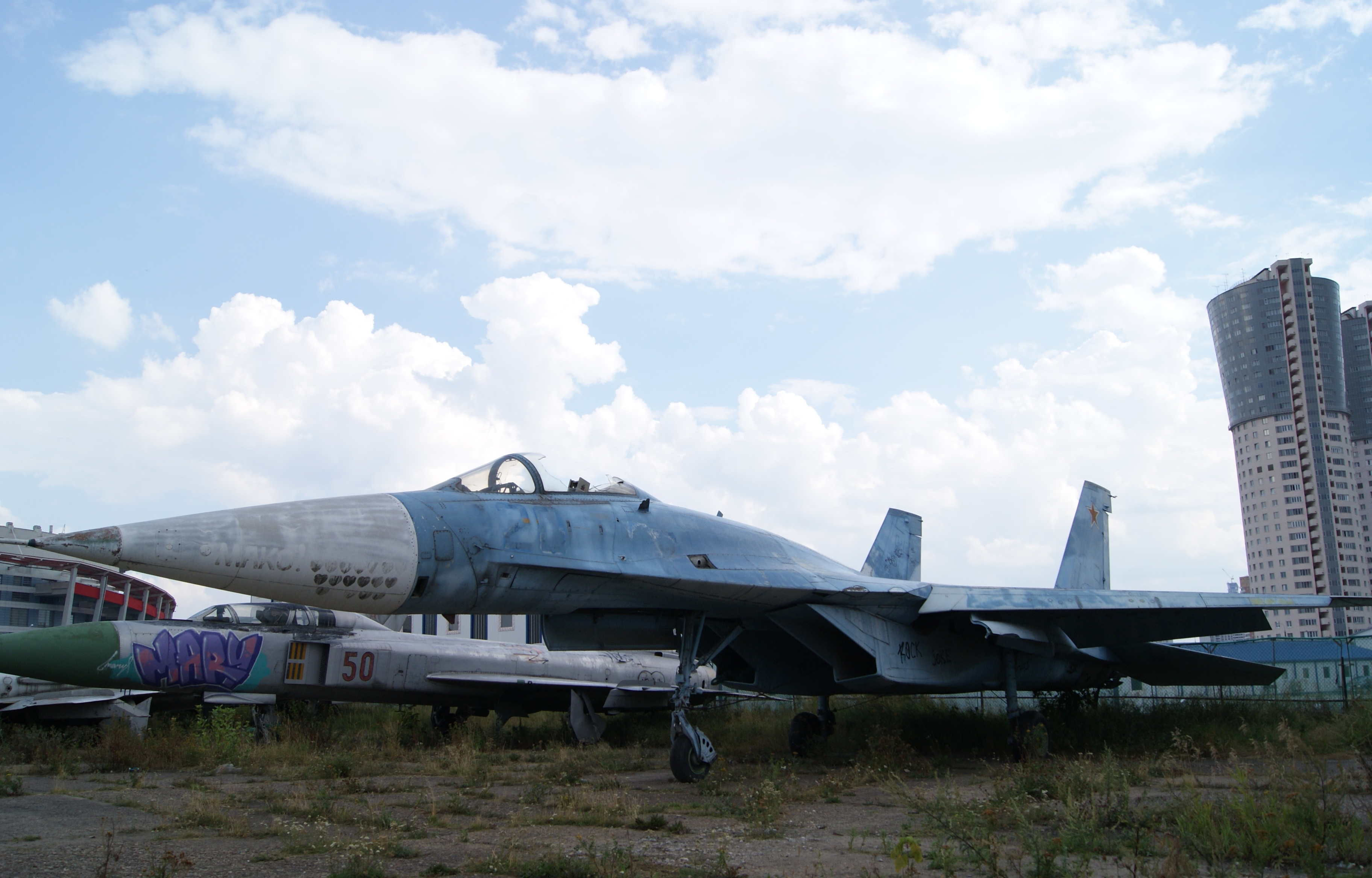 Aircraft at the Khodynka Field in Sokol (Moscow)